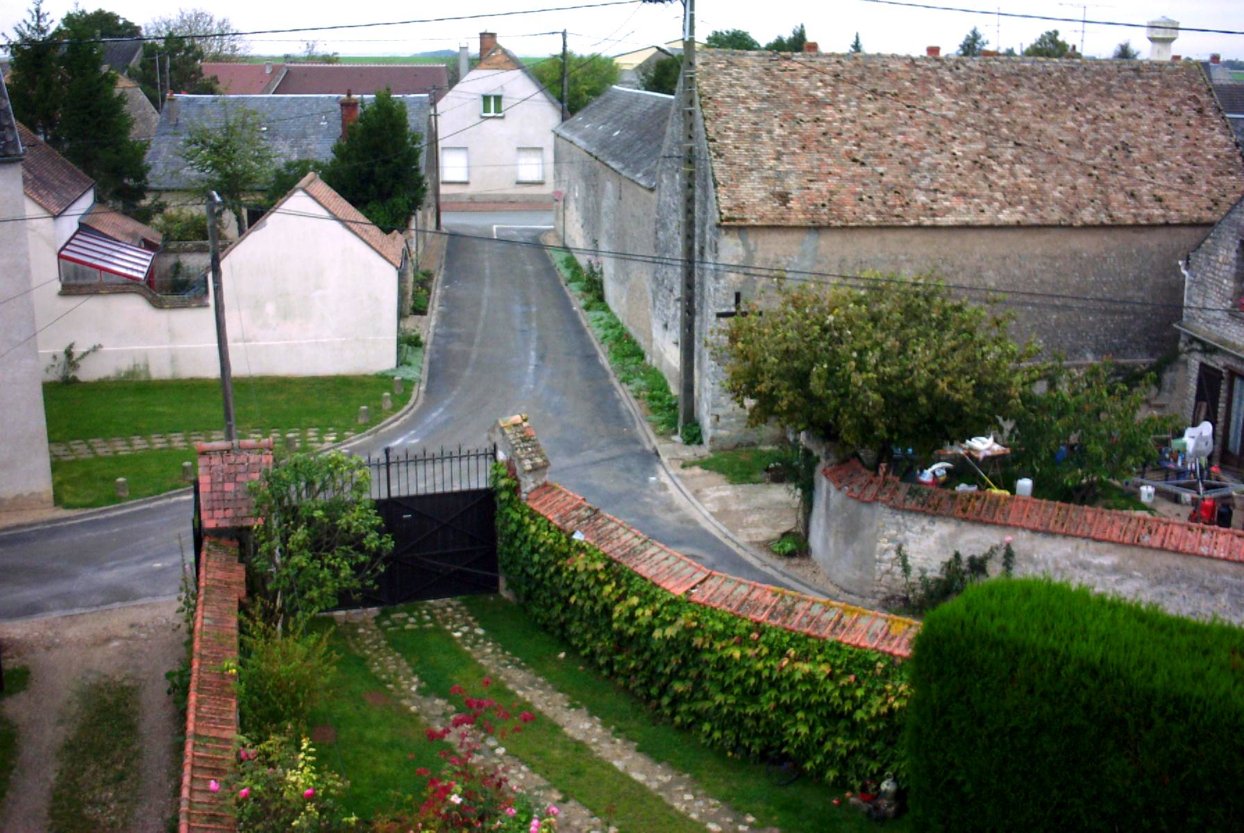 Church Street viewed from a rooftop. The Main Street (Grande Rue) is seen on the background.